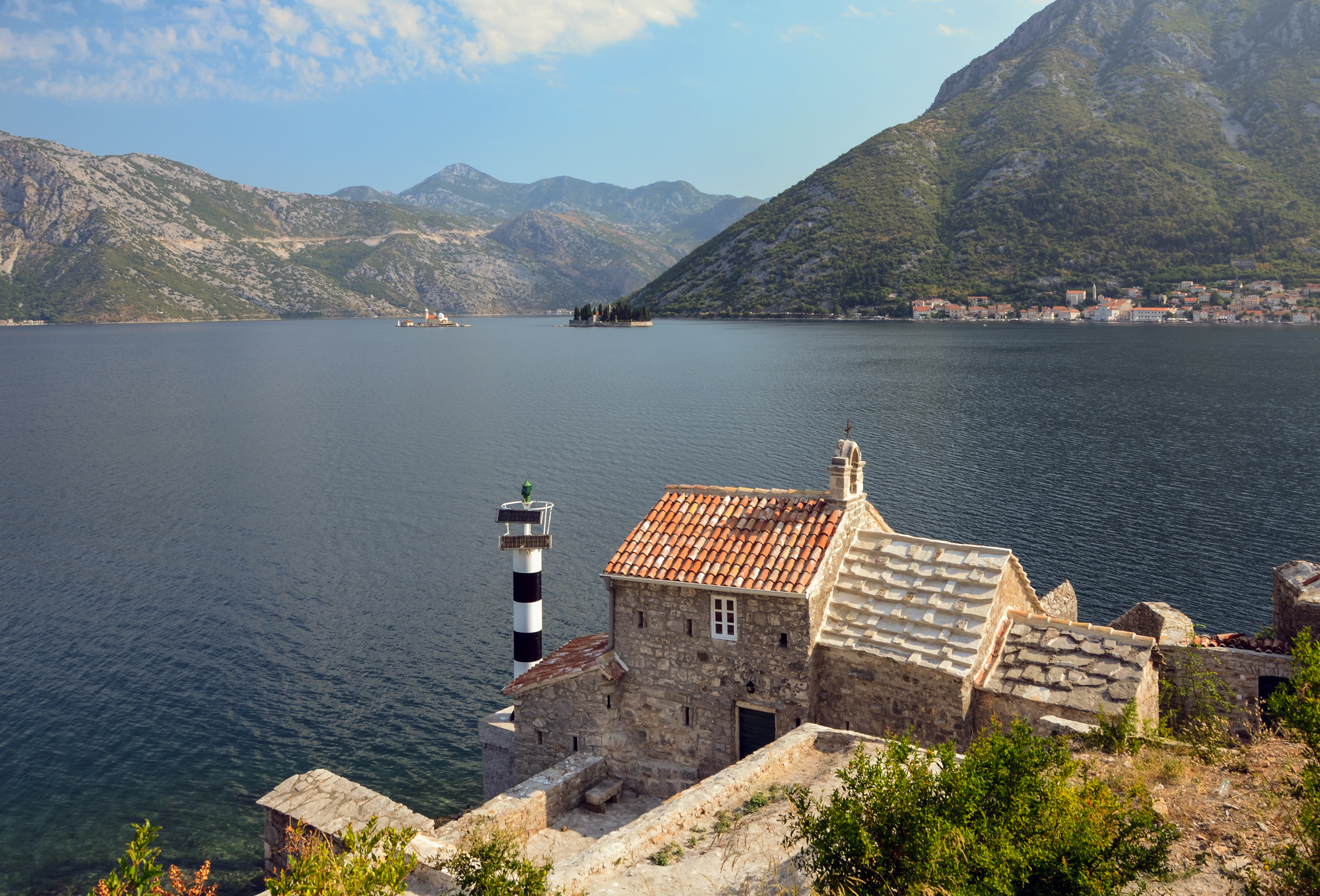 The bay of Kotor viewed from Lepetani's road, in Montenegro. In the background, on the right, the town of Perast. In the foreground, the church Gospe od anđela (Our Lady of Angels).